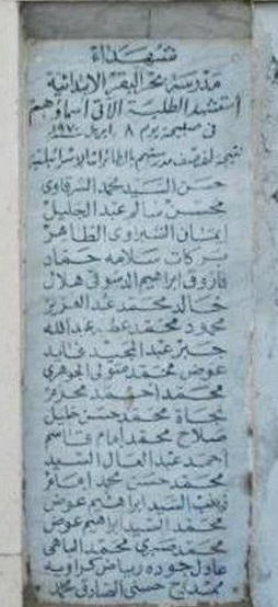 memorial nameplate of Bahr El-Baqar Massacre Martyrs.